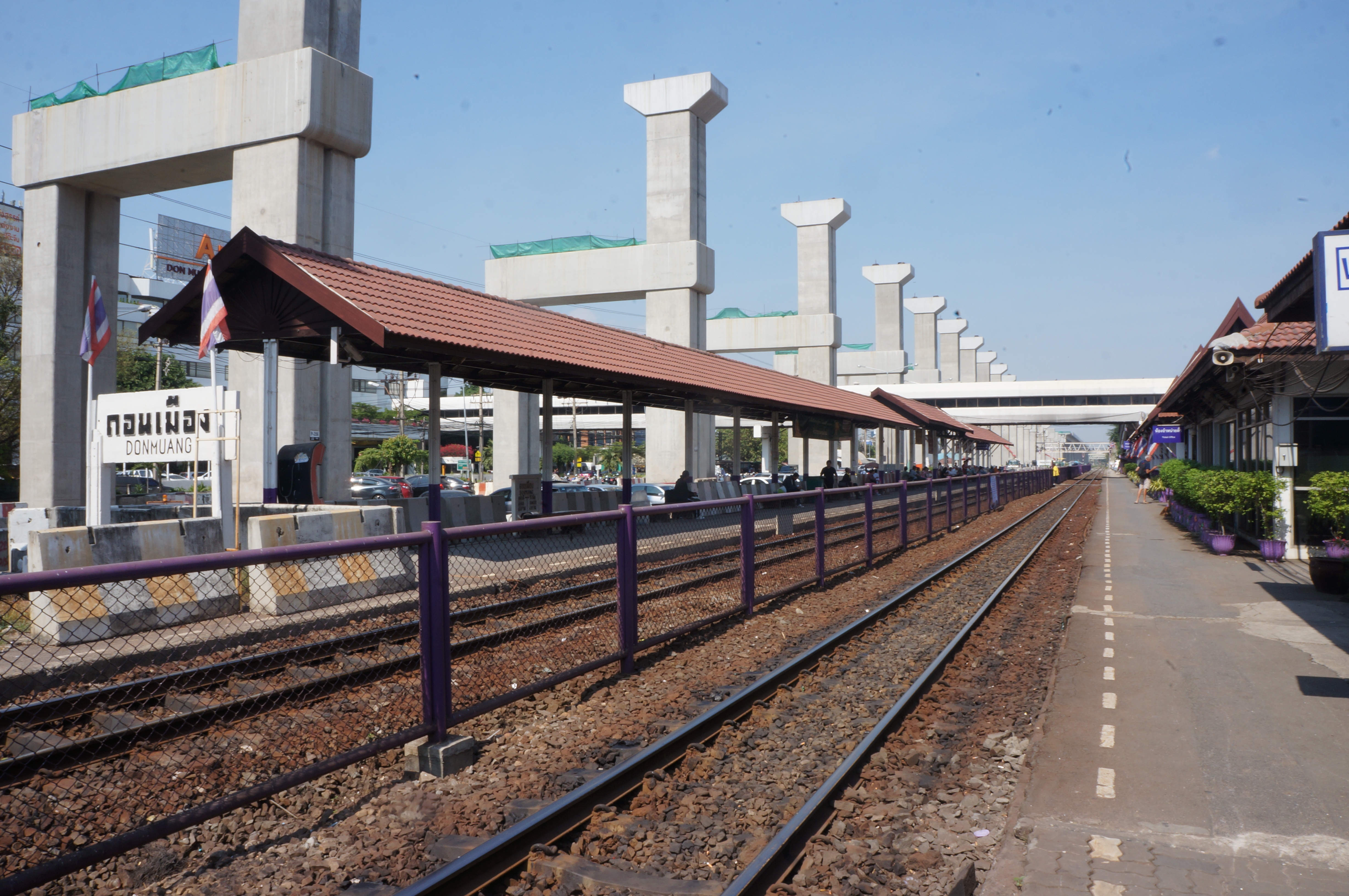 201701 Overview of Don Muang Station